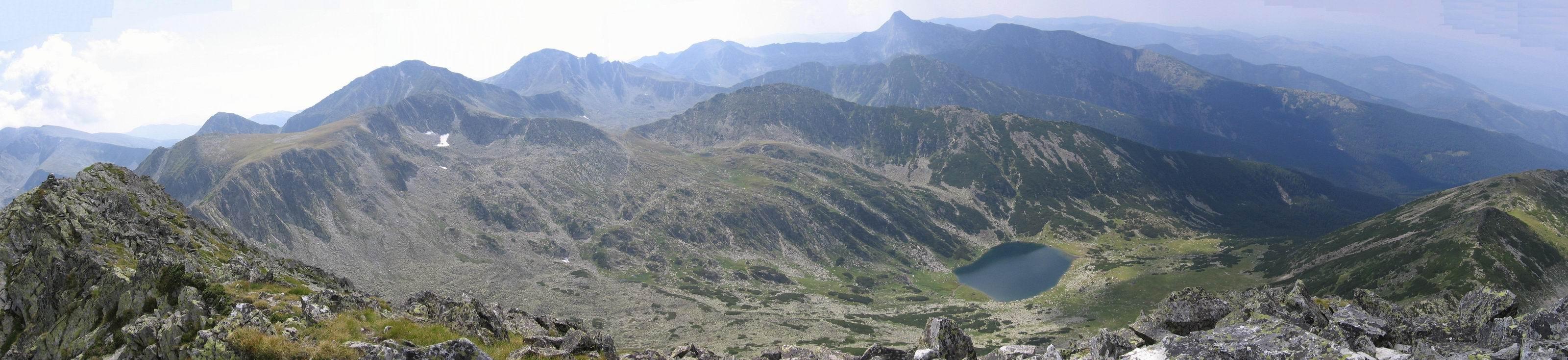 Retezat Mountain view from Varfu Mare (Big Peak) 2463m - aug 2006